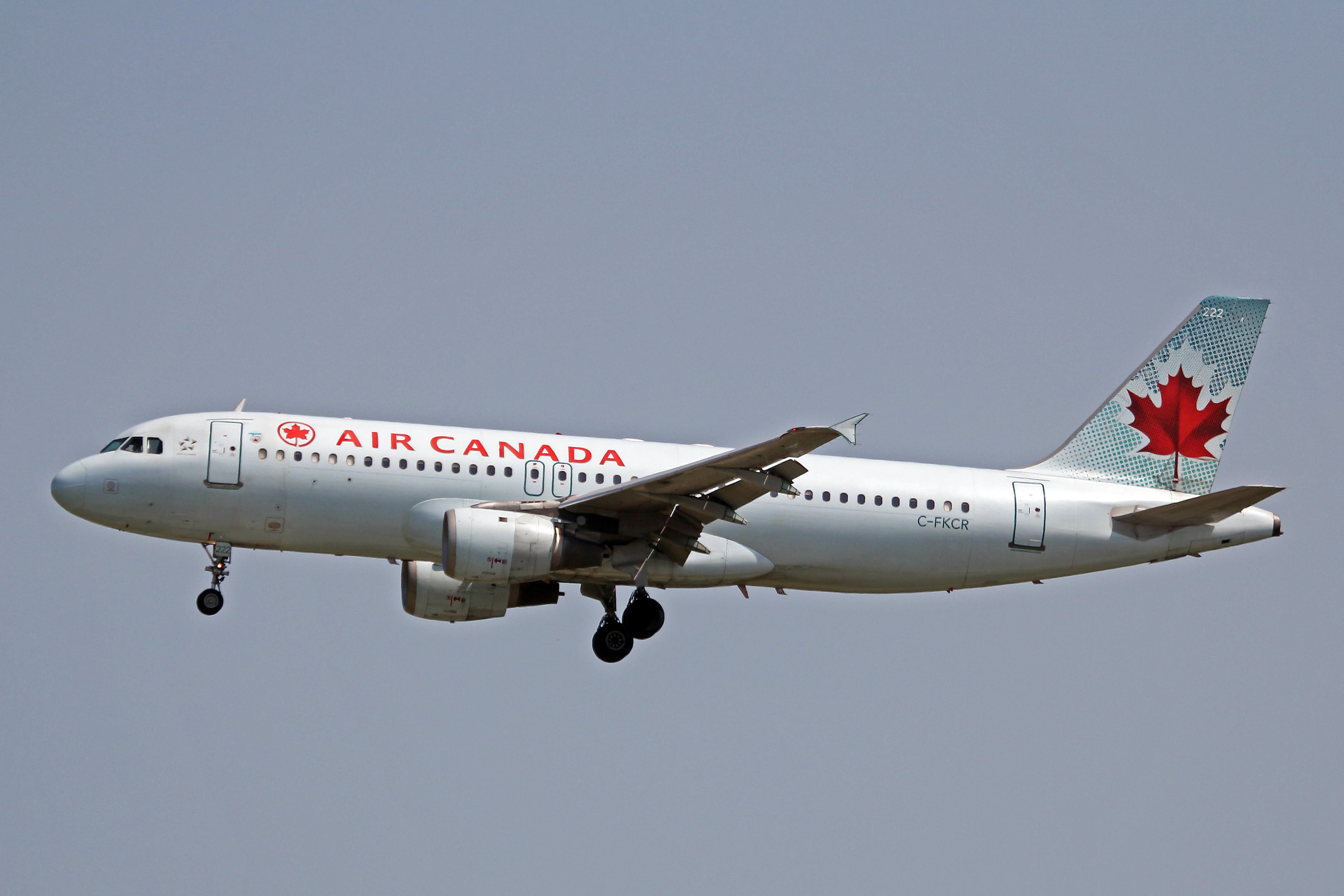 I also have a shot of this aircraft in it's earlier livery at